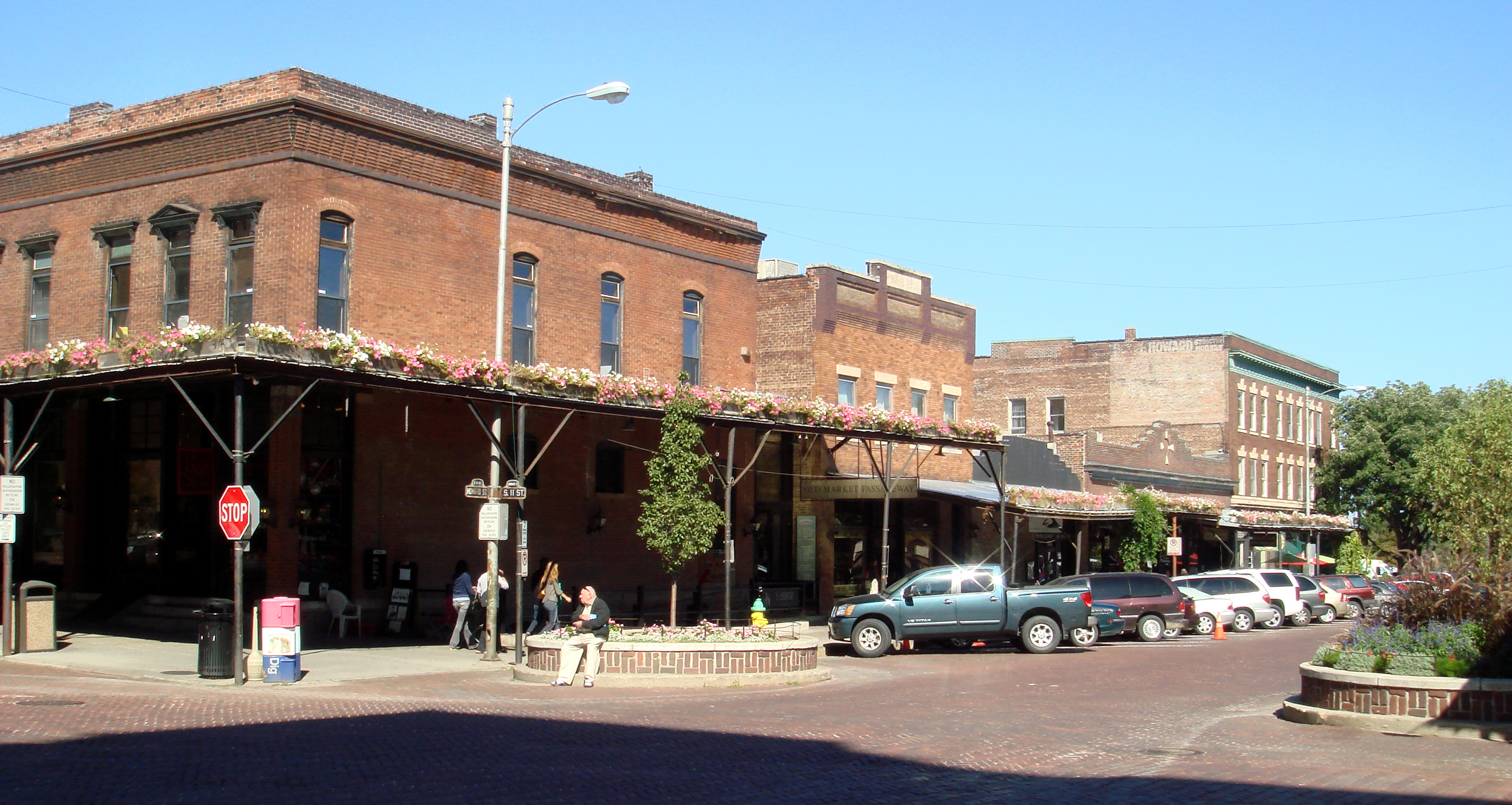 A corner of Old Market in Omaha, Nebraska.